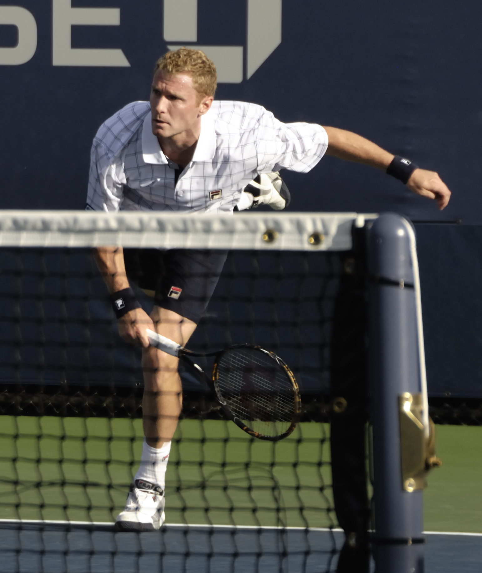 Dmitry Tursunov at the 2009 US Open